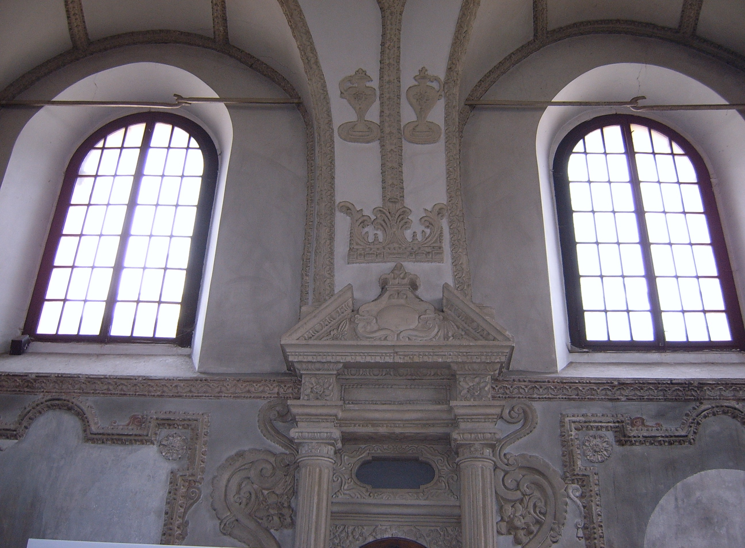 Synagogue in Zamość (inside)